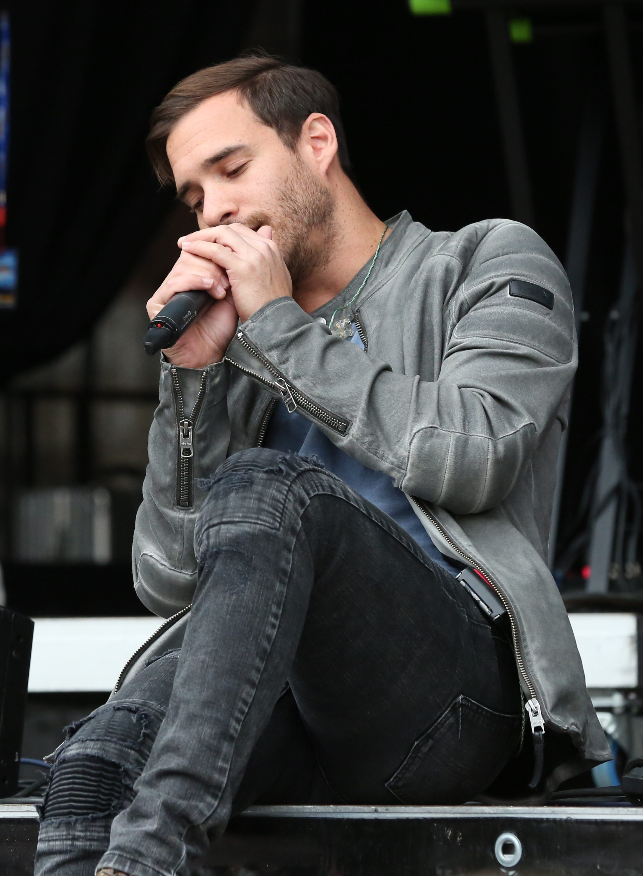 Lions Head (Ignacio "Iggy" Uriarte) at the Tag der Sachsen 2017 in Löbau; Hitradio RTL/Radio Lausitz stage at the Neumarkt